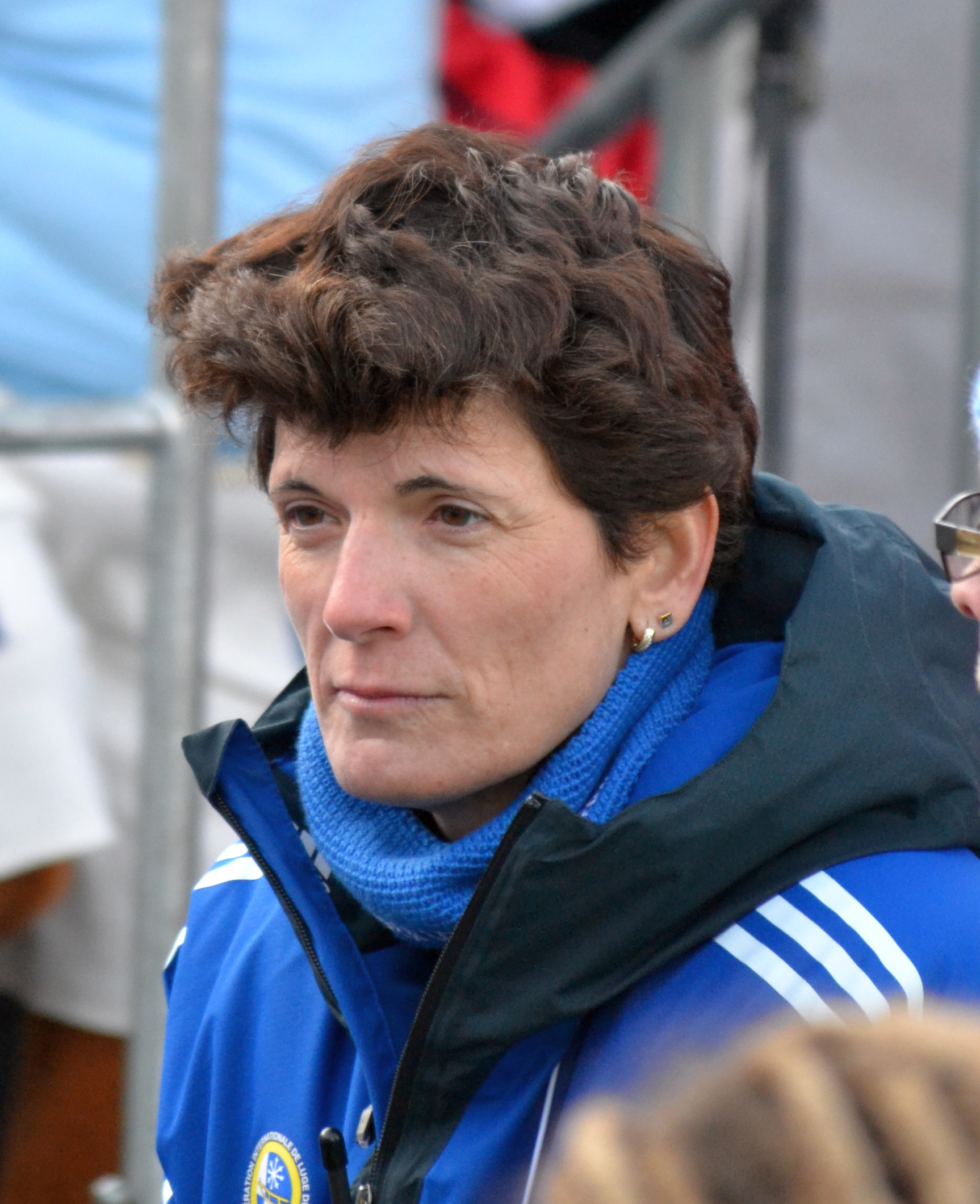 Luge world cup race season 2014/15 in Altenberg/Germany, 19th to 22nd Februar 2015. Day 3: Mens race.